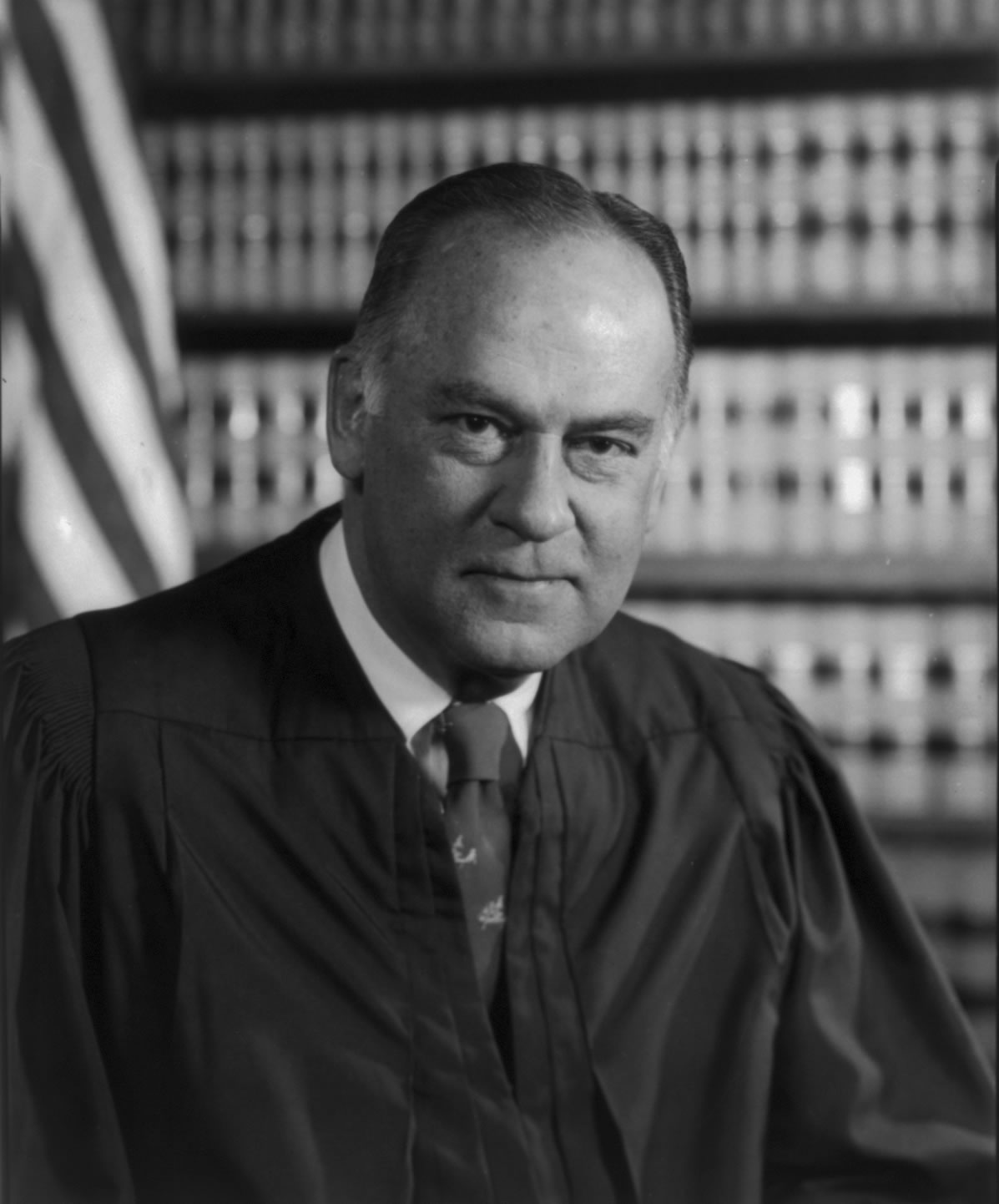 Official portrait of Justice Potter Stewart.